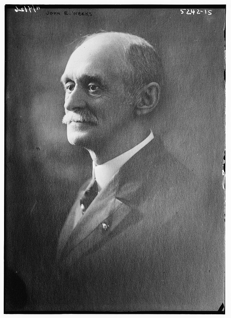 John Eliakim Weeks circa 1925